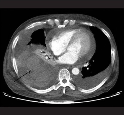 Hemothorax complicating rheumatoid arthritis